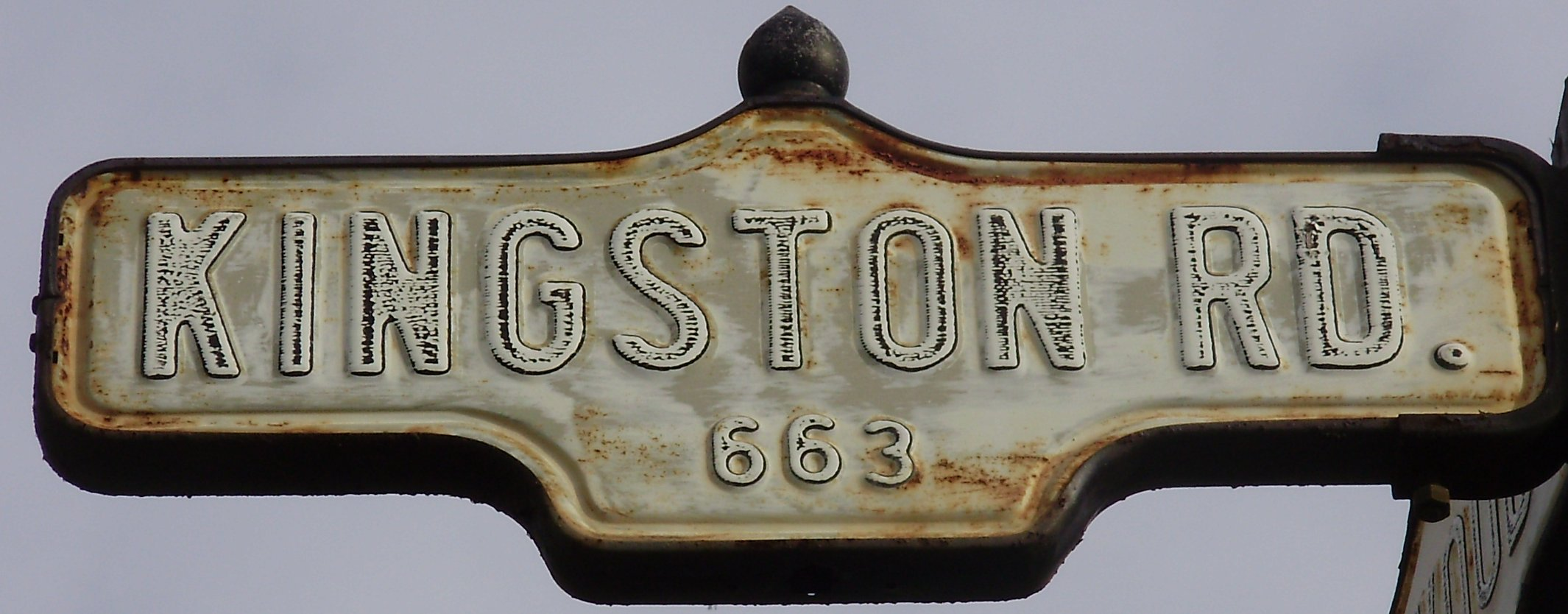 A street sign for Kingston Road, found at its intersection with Southwood Drive, in Toronto, Ontario, Canada.